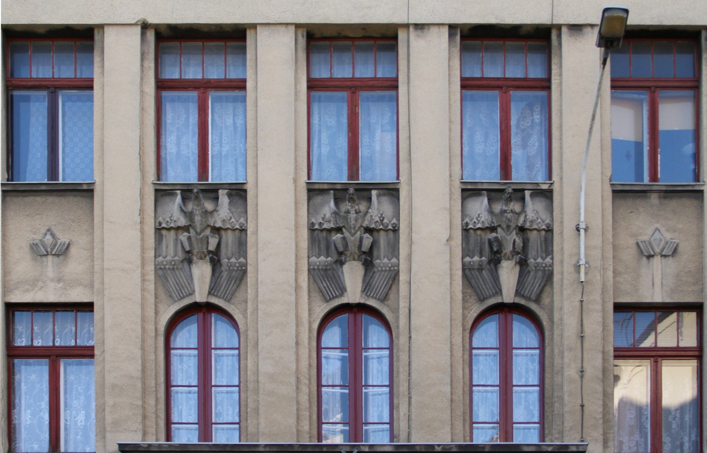 House "Under three eagles" in Bydgoszcz